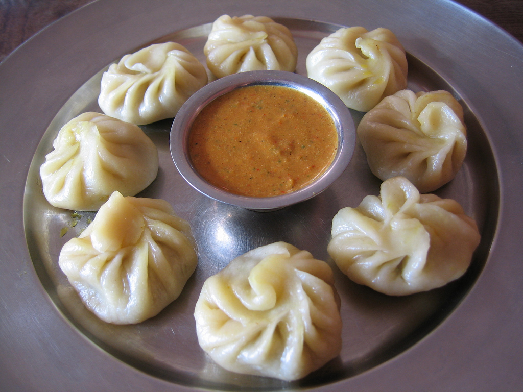 The traditional bhutan dish - momo dumplings.